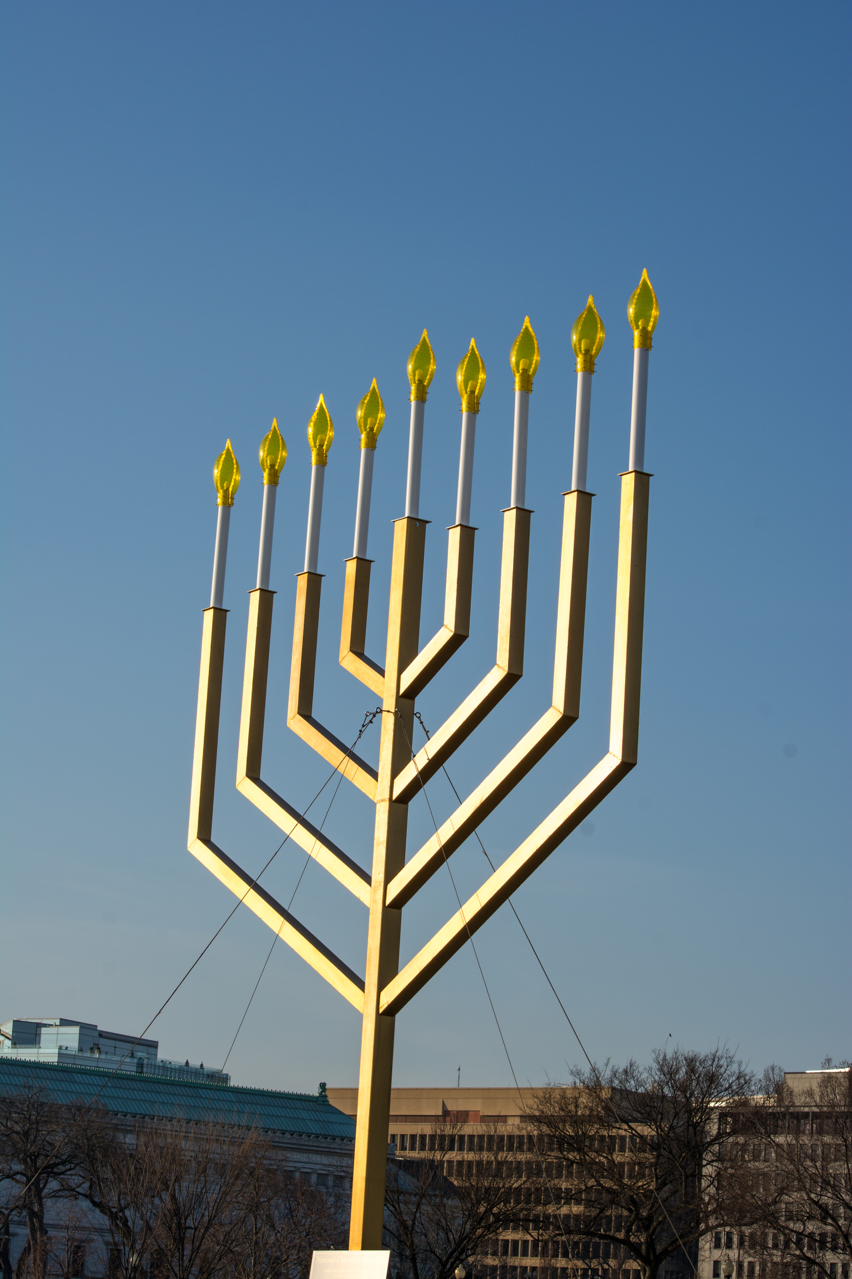 View of the U.S. National Menorah on The Ellipse in the President's Park, south of the White House in Washington, D.C., in the United States on December 21, 2015.